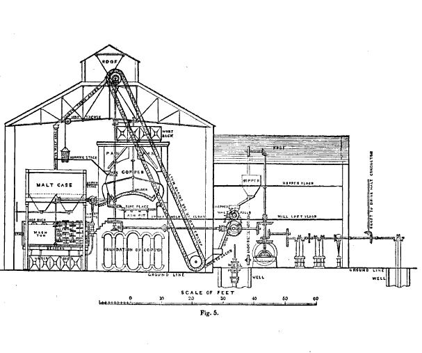 Plate from George Dodd (1808–1881), Days at the Factories: Or, The Manufacturing Industry of Great Britain Described (1843), showing a brewery.